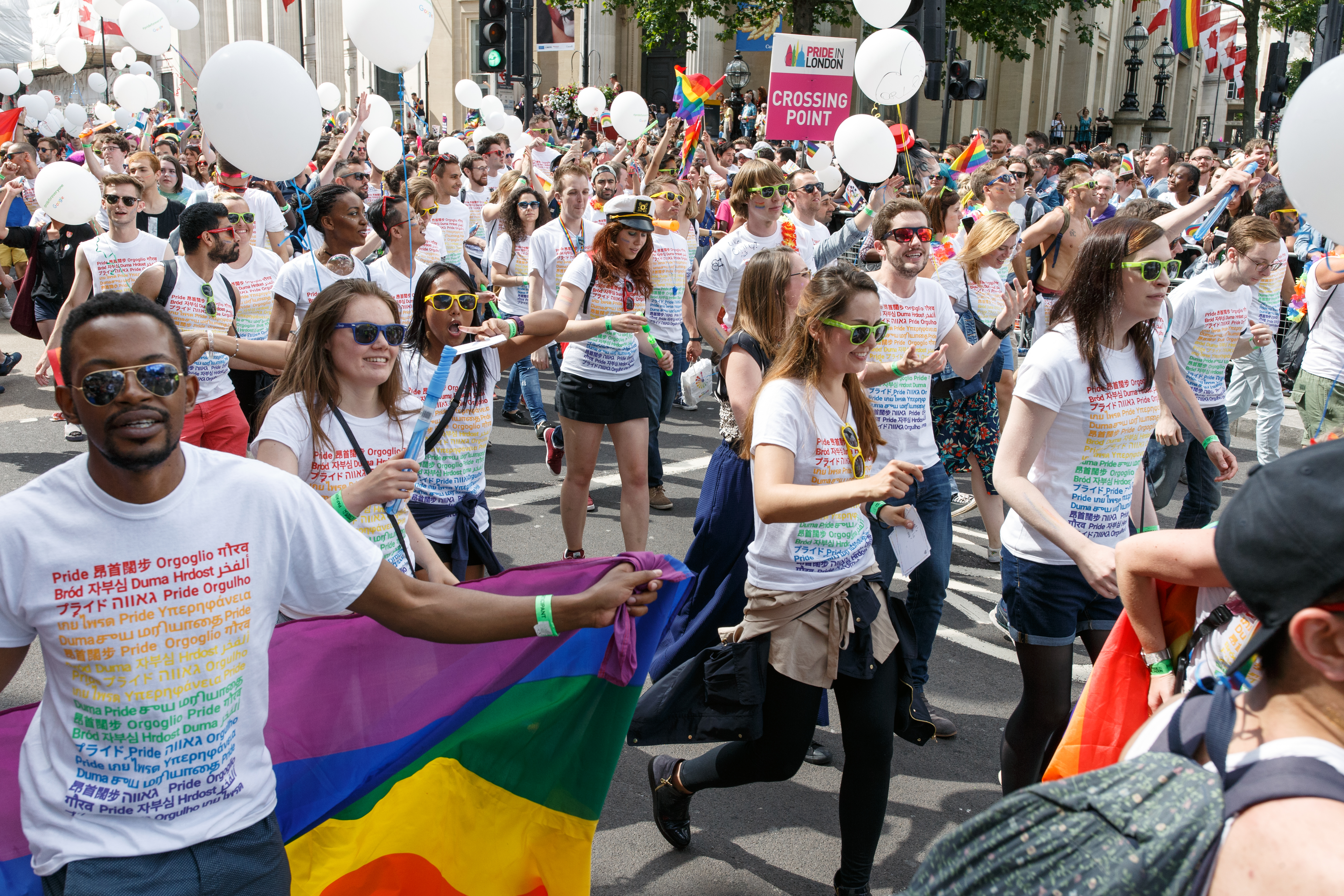 Google staff in the parade at Pride in London 2016 as it passes Trafalgar Square.